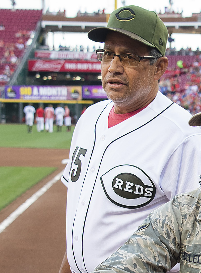 Airman Whitney McClellan, National Air and Space Intelligence Center, shakes hands with Ed Hickox, home-plate umpire, as she performs her duties as the Cincinnati Reds honorary team caption Aug. 9, 2019. McClellan accompanied Reds manager David Bell out to deliver the Reds’ starting lineup prior to their home game against the Chicago Cubs. (U.S. Air Force photo by R.J. Oriez)